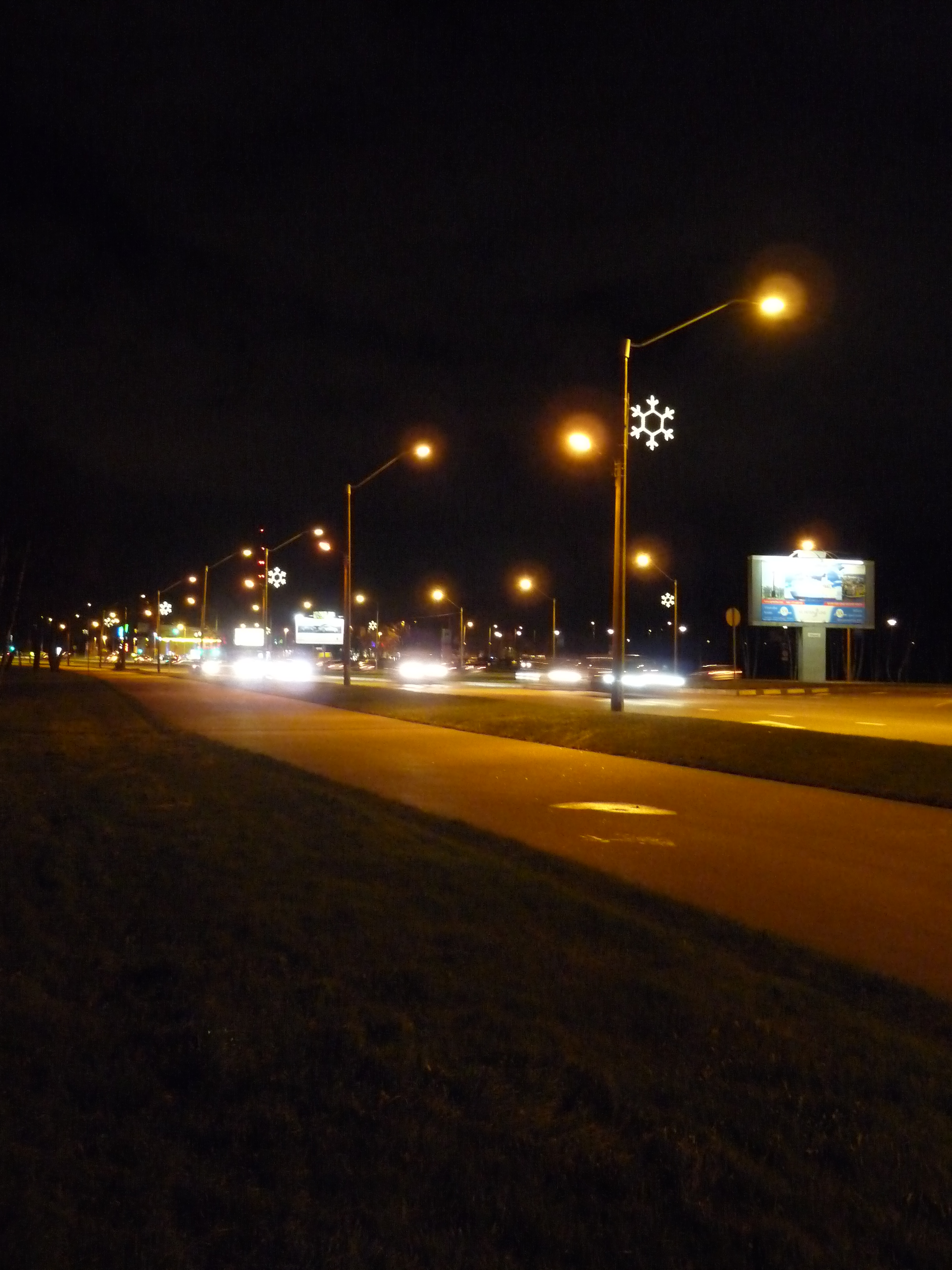 Pirita street